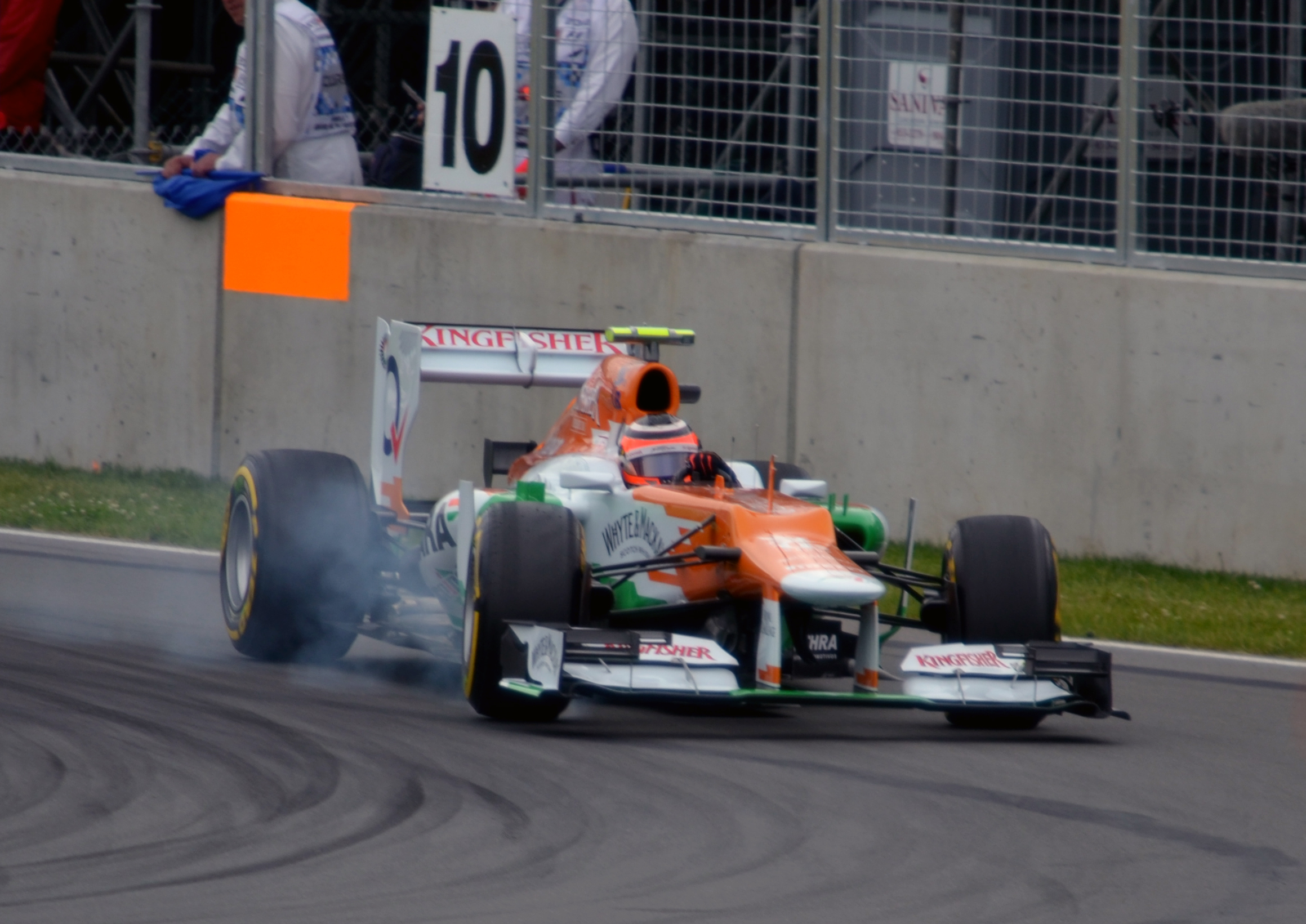 Nico Hulkenberg locks up in the Force India - Mercedes VJM05 at L'Epingle hairpin corner of Circuit Gilles Villeneuve during second practice for the 2012 Canadian Grand Prix.